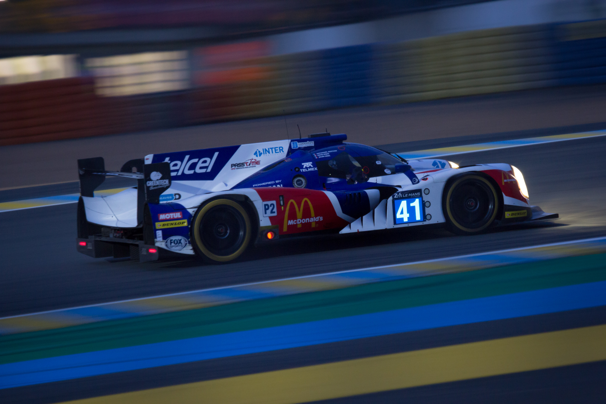 Drivers: Guillermo Rojas, Julien Canal, Nathanaël Berthon